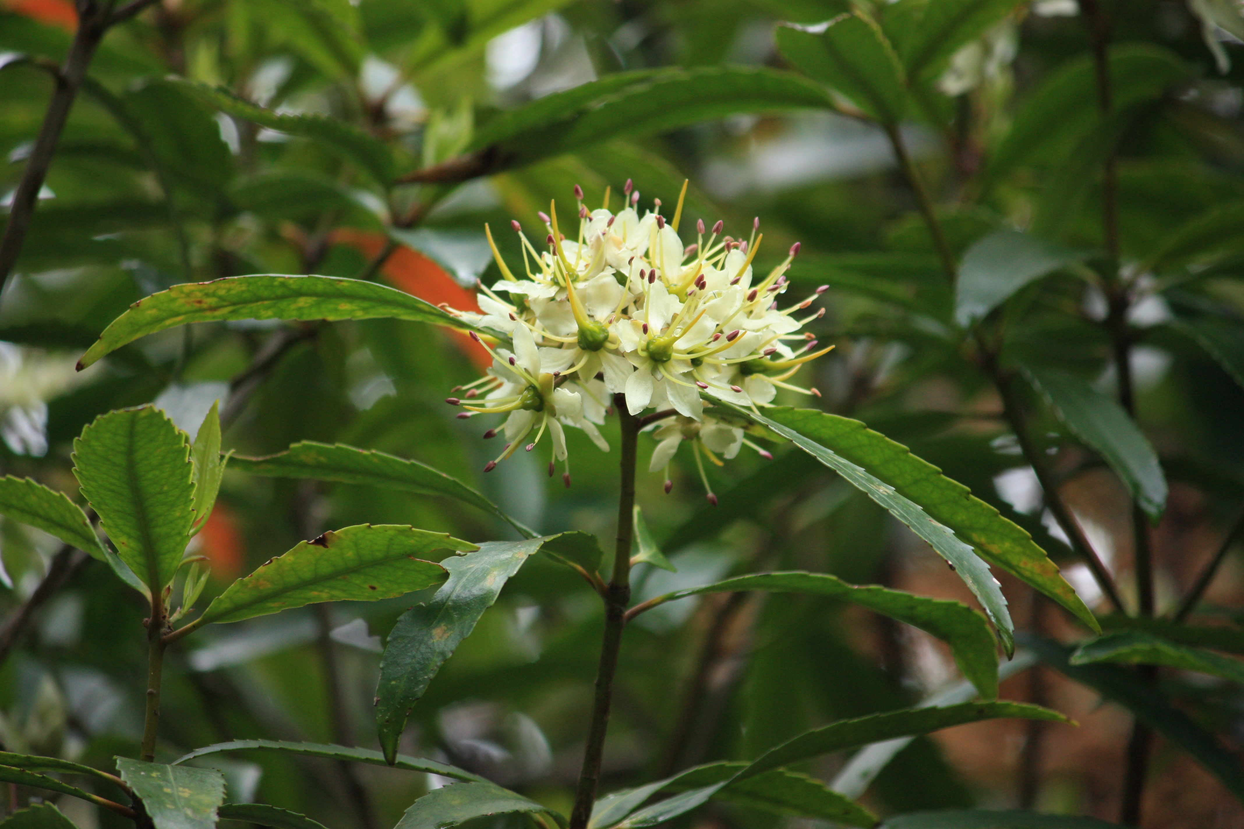 amazing flower on this NZ native. the Tawari, has only one species in NZ, restricted to NZ as well. it grows as a tree up to 10m + high, in lowland and lower mountain forests (the Mamaku plateau is up to 2000'amsl). the leaves grow as a whorl pattern, seen here but as they age they may appear in opposition or alternates (see flowerpic). the flower is stunning, late spring to mid summer with the seed capsules forming thereafter through to early autumn. the capsules hold five black seeds in a red fleshy foot. Bay of Plenty NZ. Latin: Ixerba brexioides